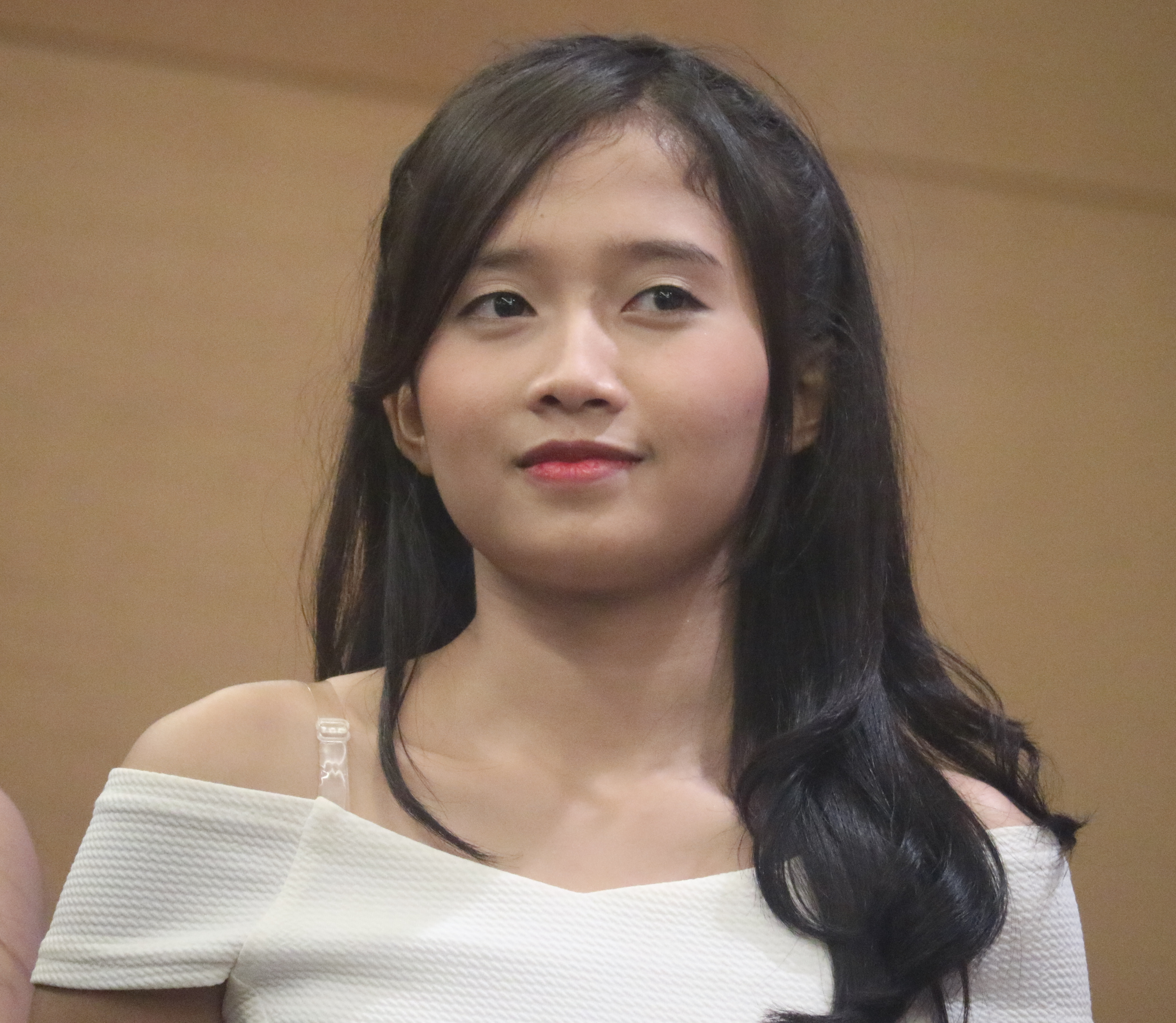 Putri Cahyaning Anggraini at HS UZA